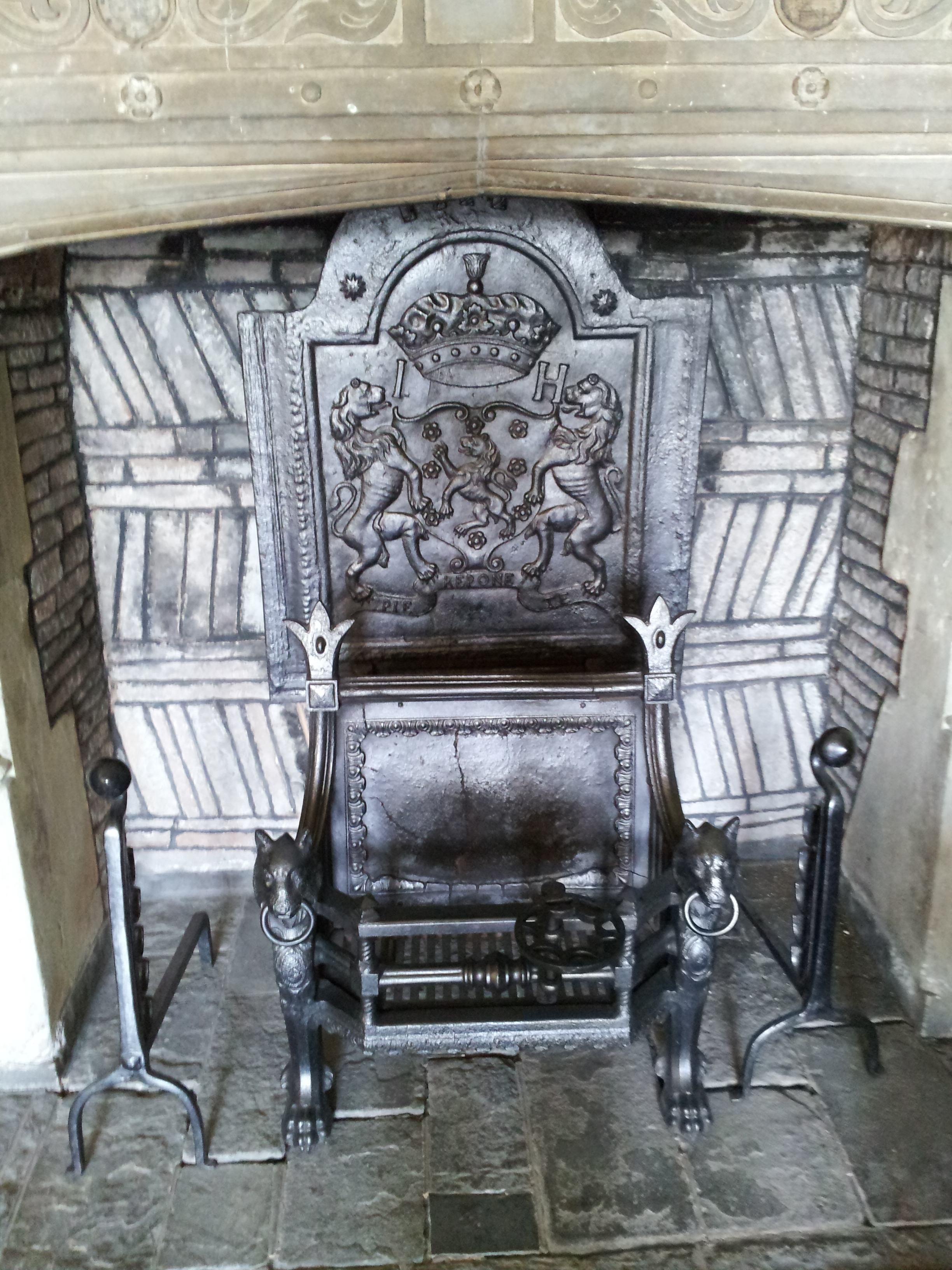 Tudro and Georgian furniture at the Red Lodge Museum in Bristol